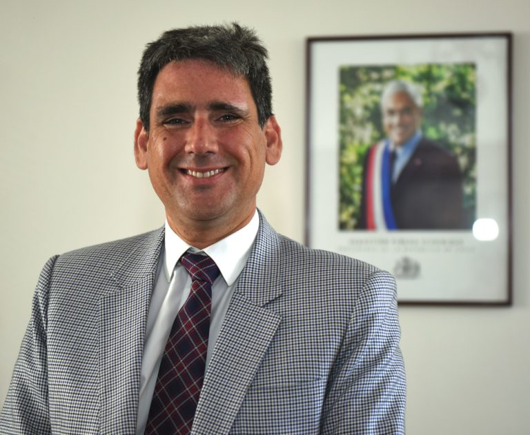 Official portrait of José Ignacio Pinochet O. as Undersecretary of Agriculture of Chile in 2019